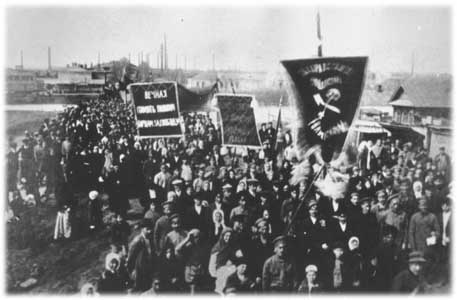 Izhevsk workers march 1917